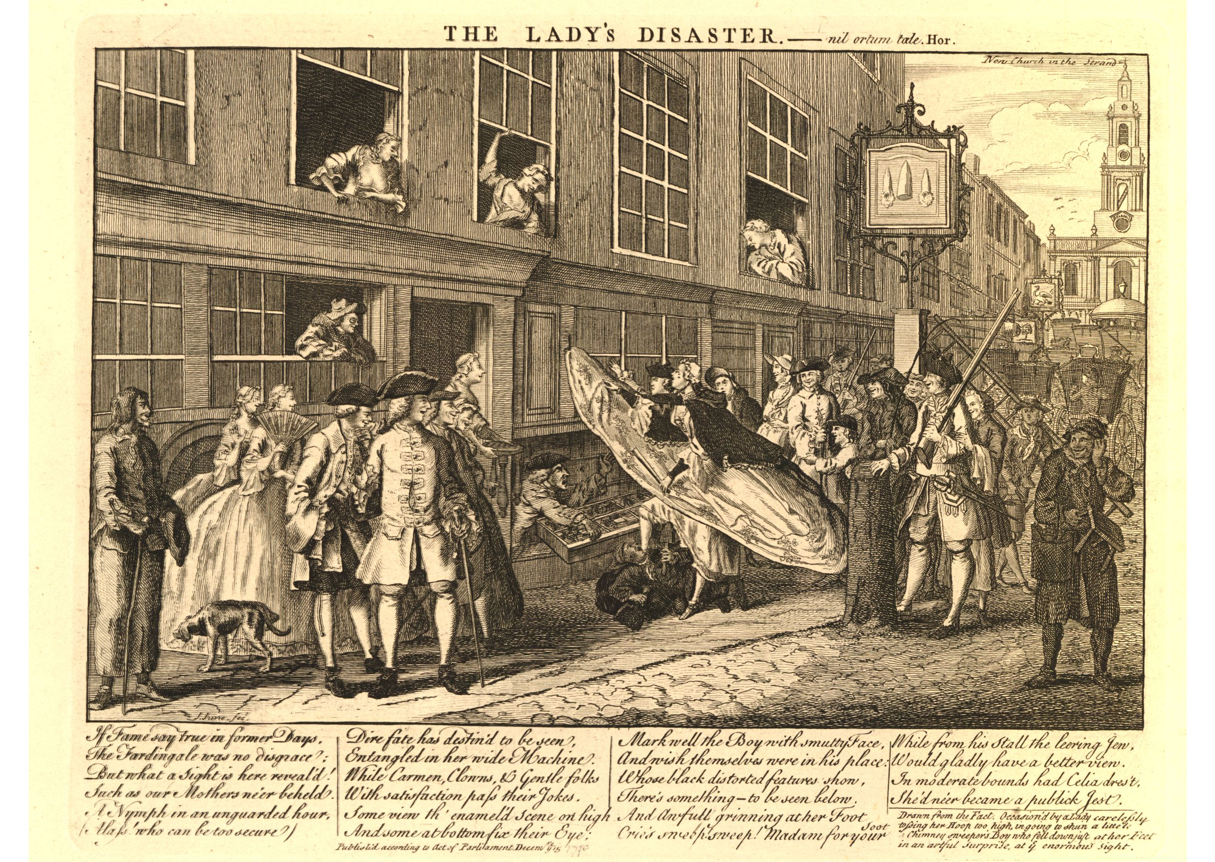 The Lady's Disaster, satirical print of a hoop skirt caught on a wall mounting.